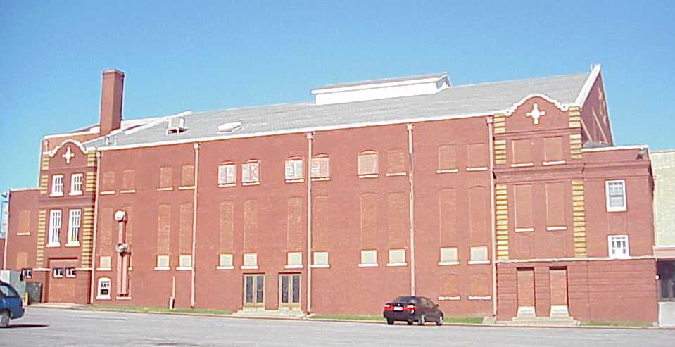 West Side of Brady Theater, Tulsa, Oklahoma